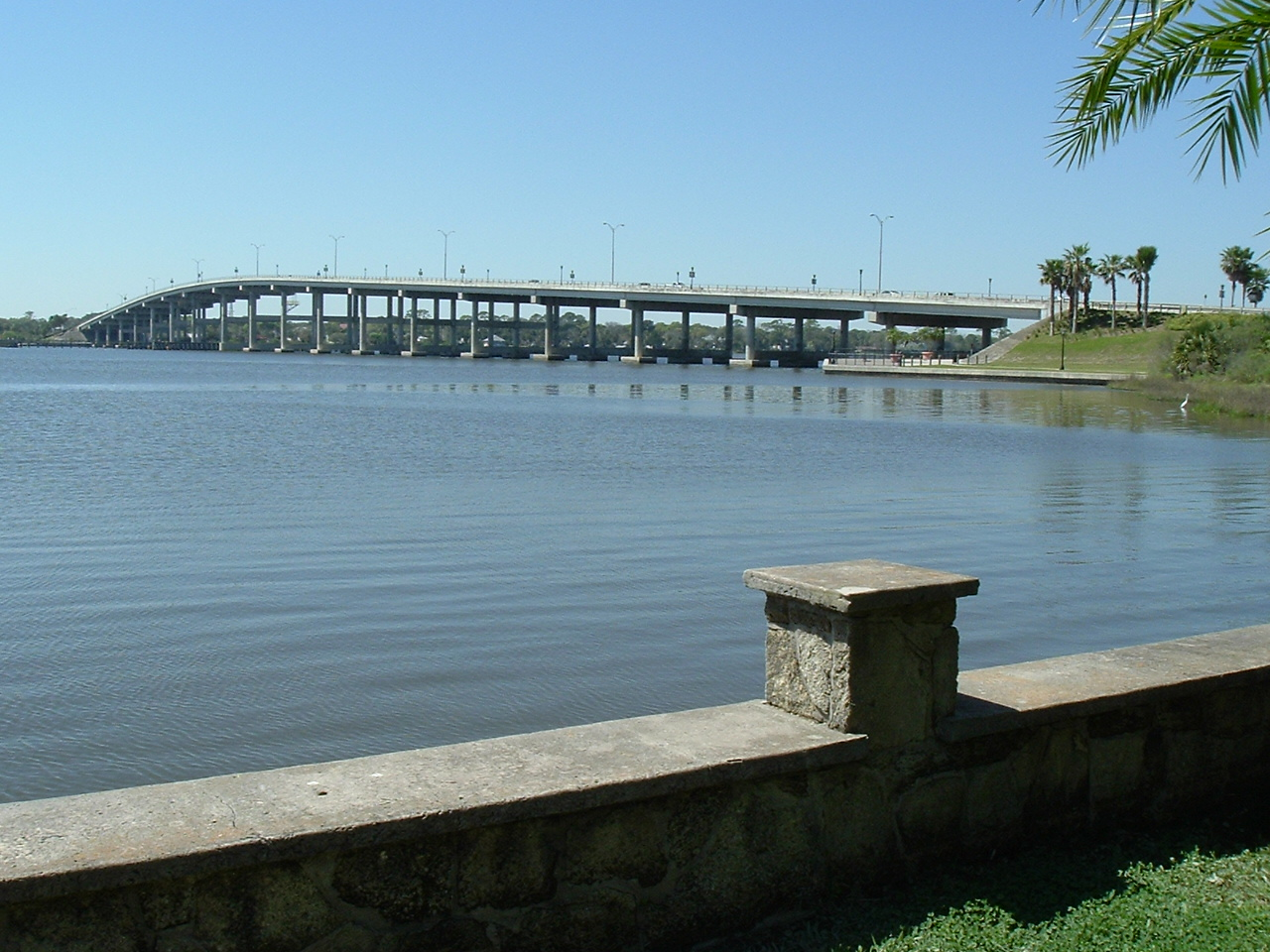 The Granada Bridge over the Halifax River in Ormond Beach, Florida. Picture taken by Michael Hoffman.